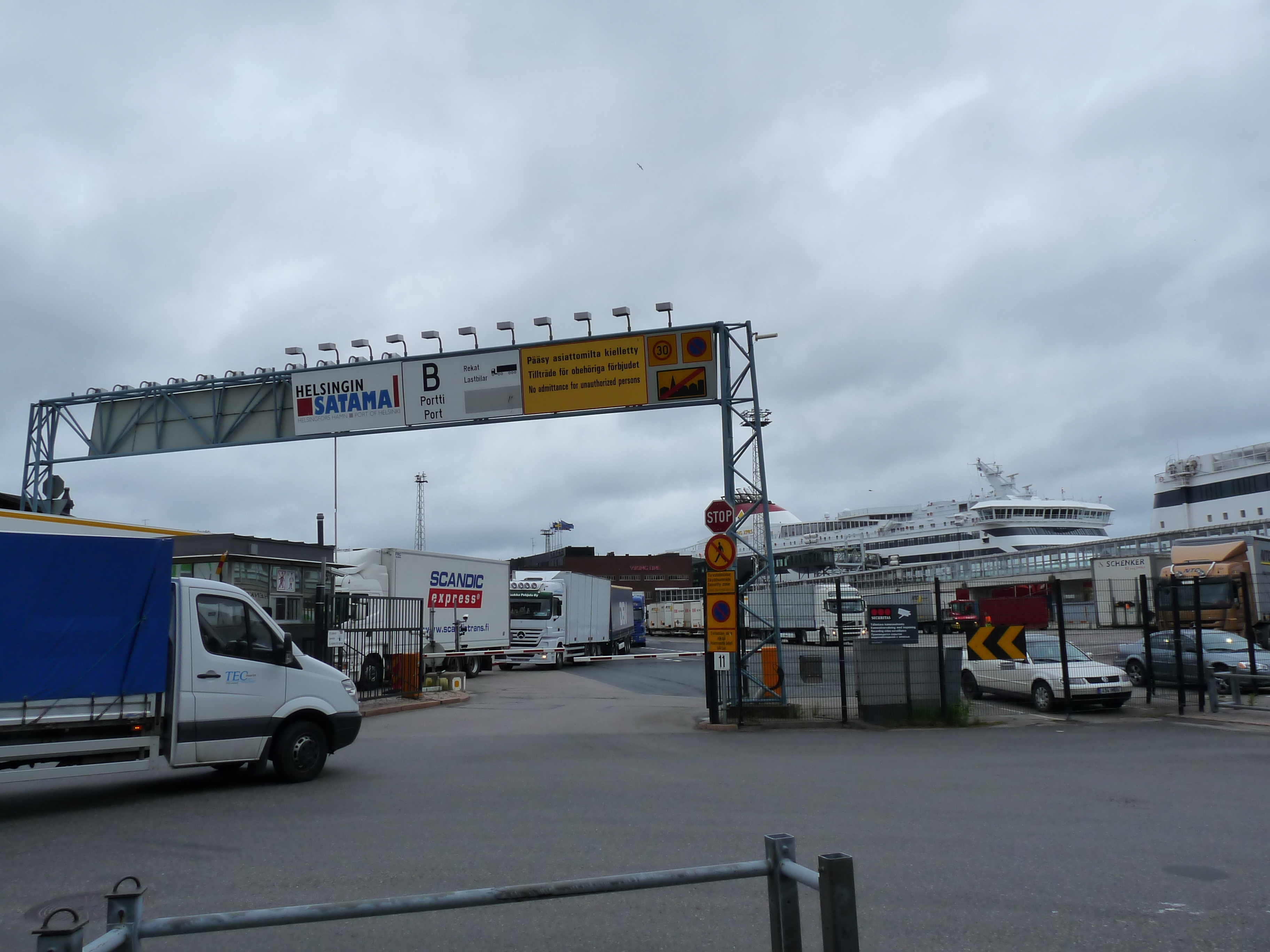 Helsinki, Finland